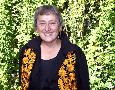 Lynn Margulis while attending the symposium "150 años de Darwin" ("150 years of Darwin") organized by the Ramón Areces Foundation in Madrid, November 2009.